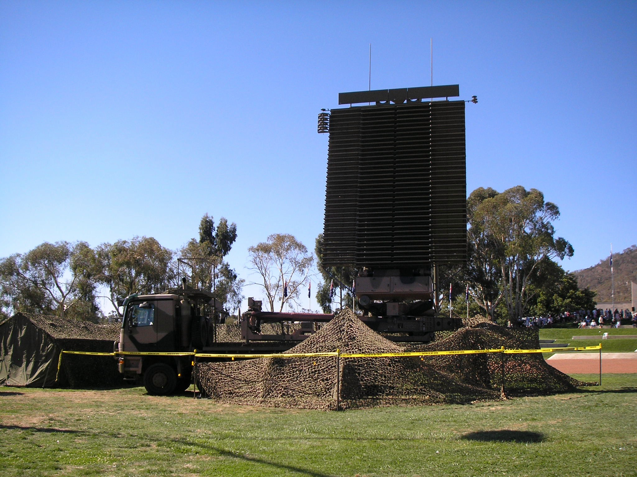 A Royal Australian Air Force AN/TPS-77; ITU-classificatio: Radiolocation land station.